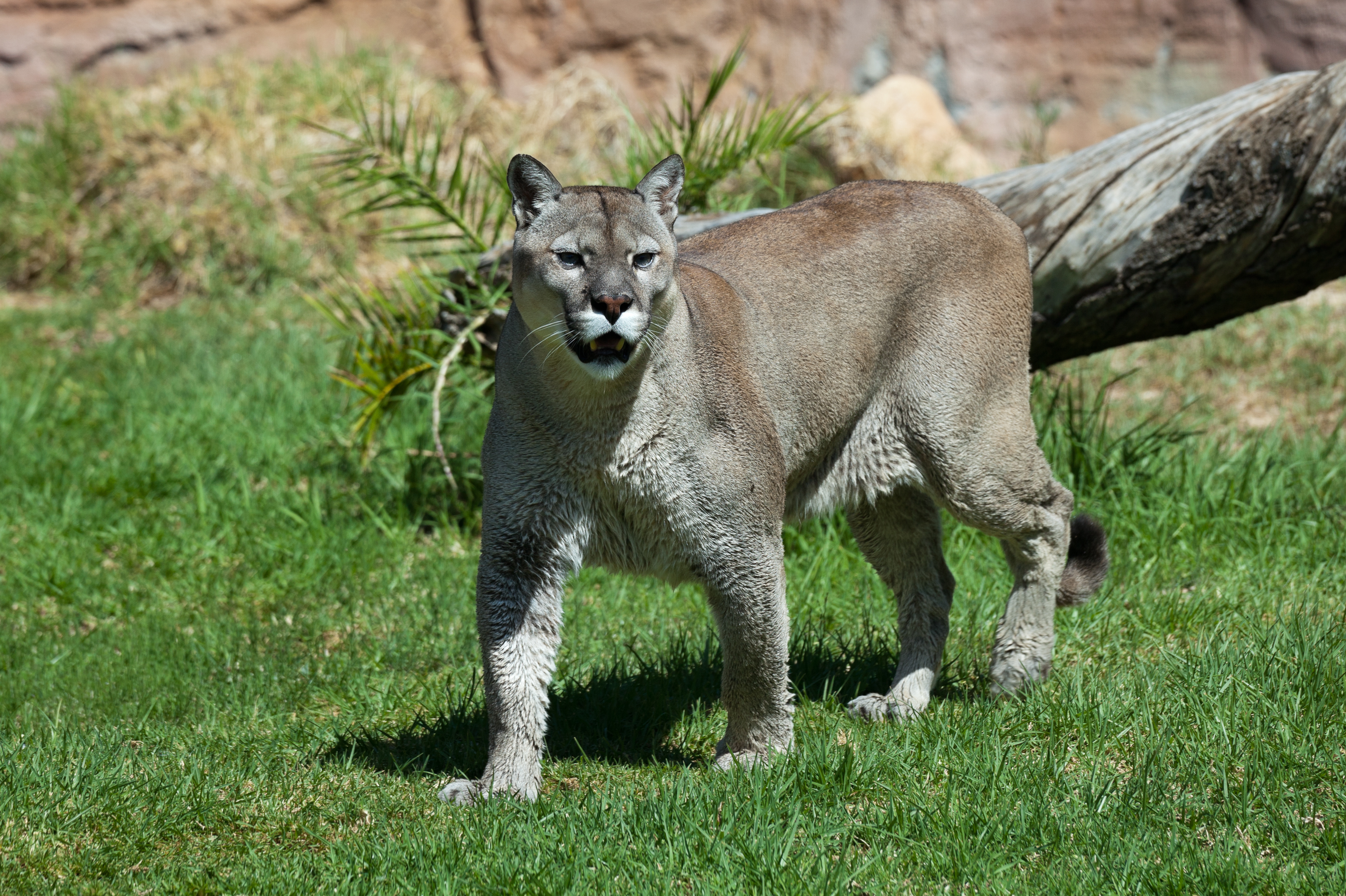 Puma concolor stanleyana, Rancho Texas Park. Tías, Lanzarote